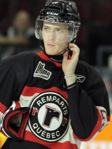 Mikhail Grigorenko as a member of the Quebec Remparts.